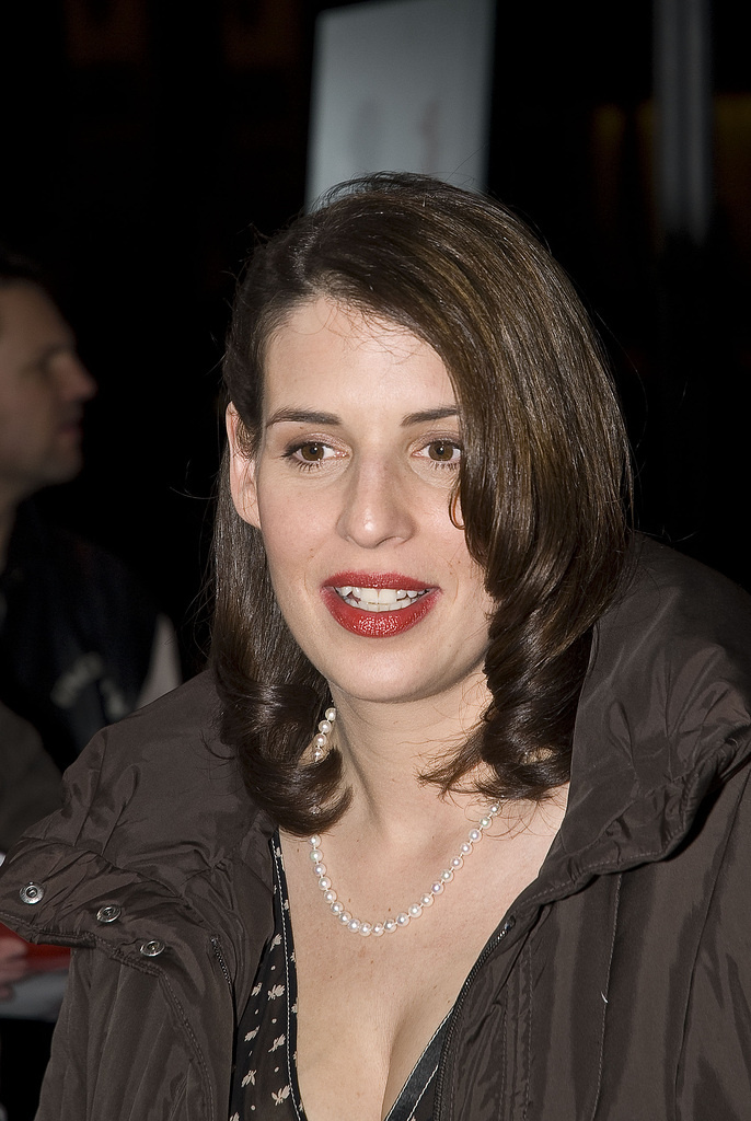 Elena Uhlig, German actress Volkswagen People’s Night 2008